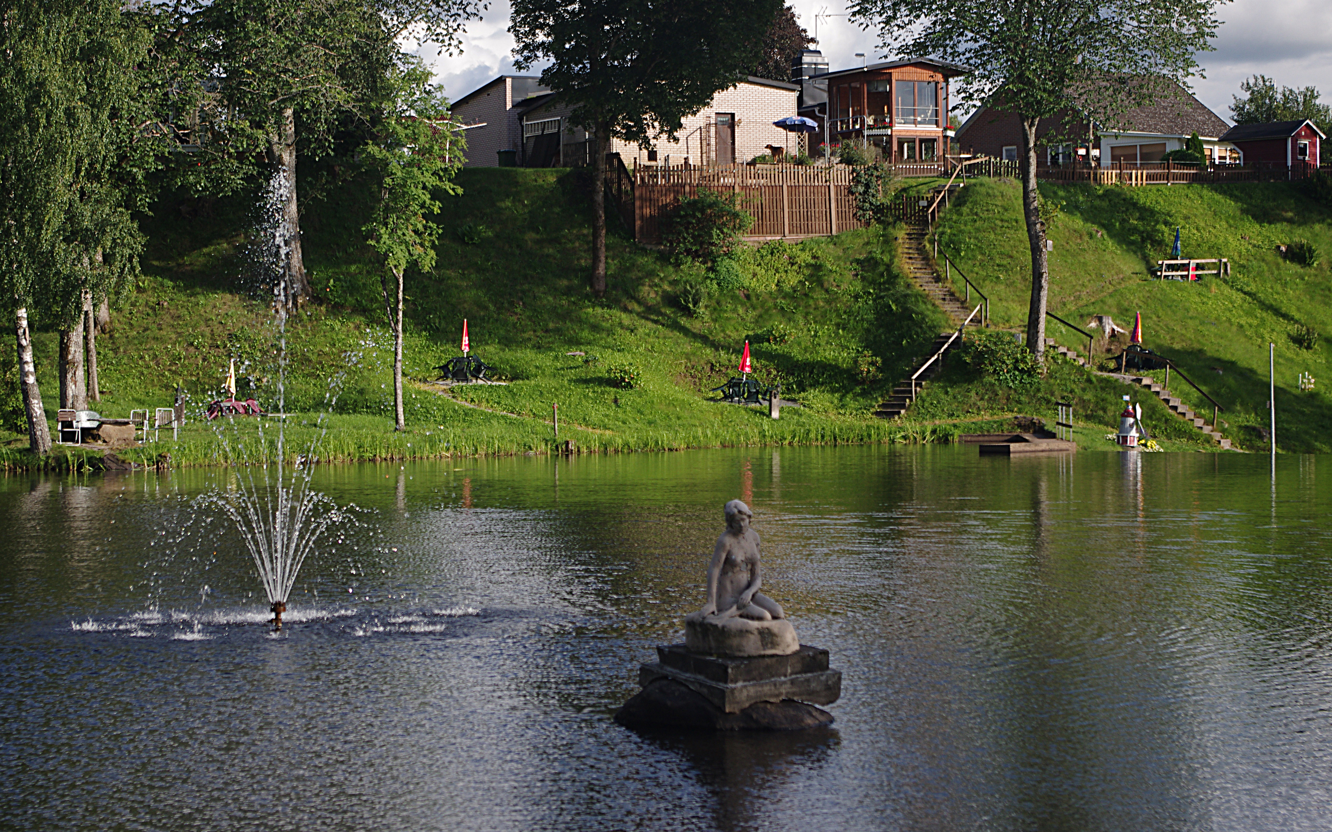 The small town/village Blidsberg in Västergötland, Sweden